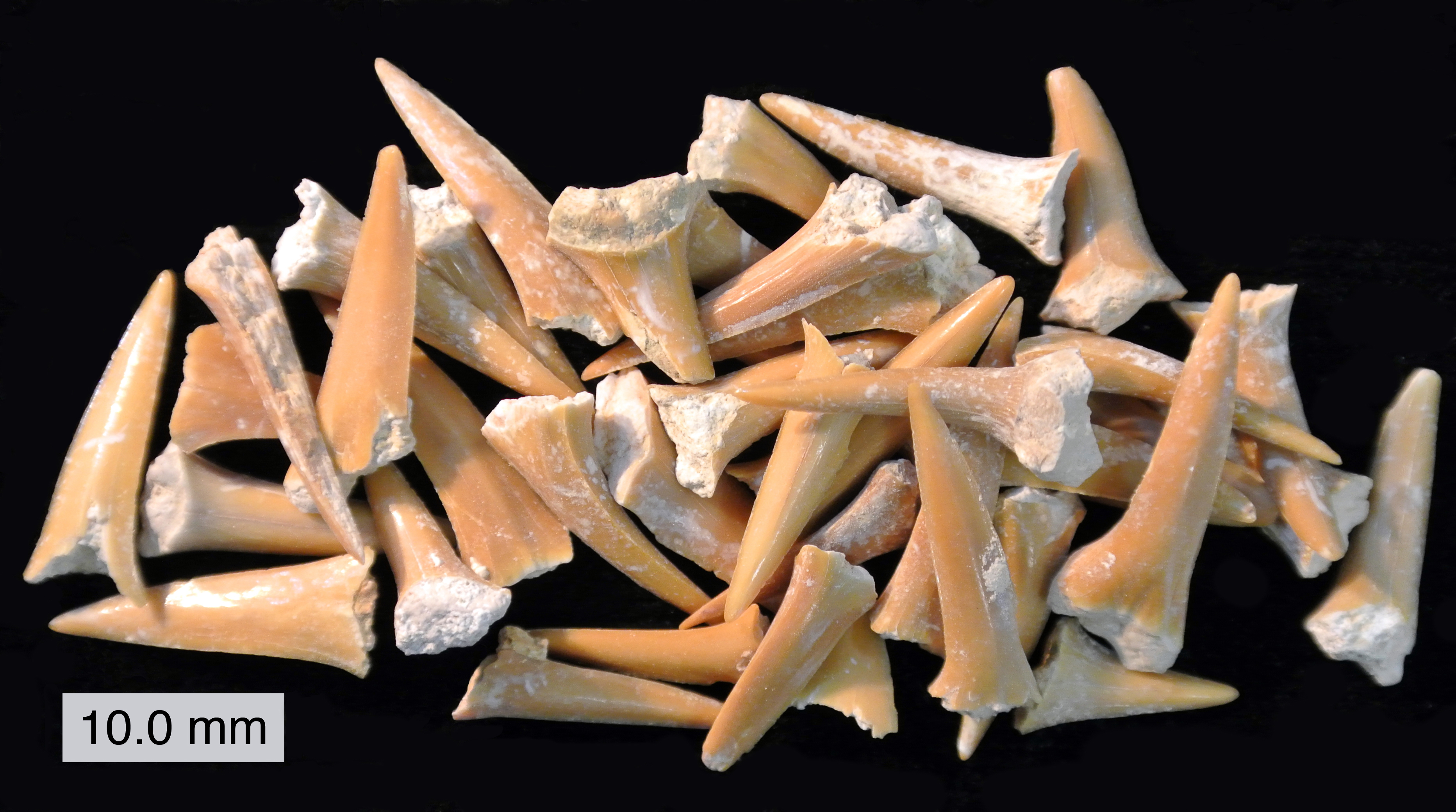 Shark teeth (mostly Scapanorynchus) from the Menuha Formation (Upper Cretaceous) of southern Israel.